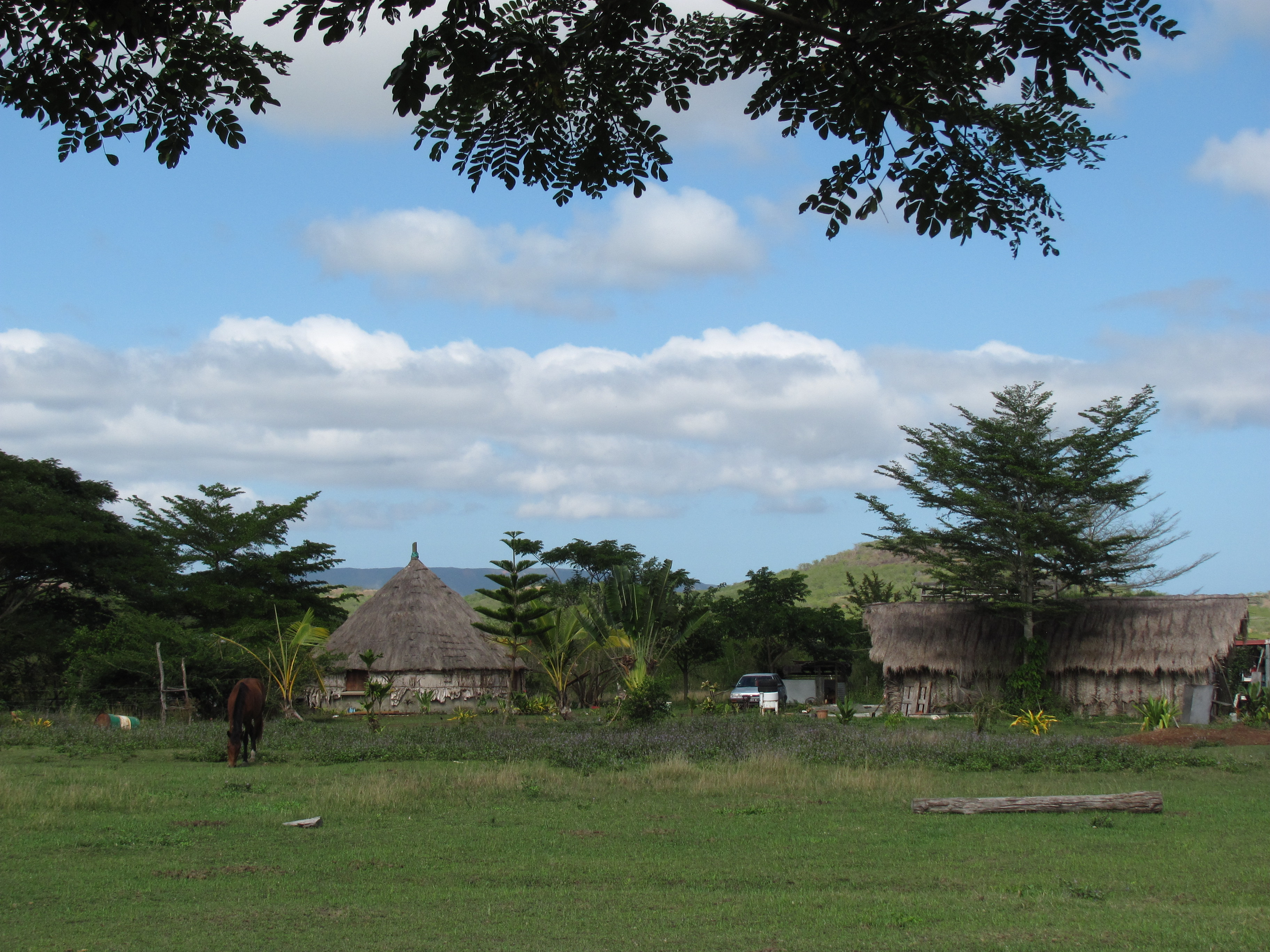 Residential area, Koné, New Caledonia